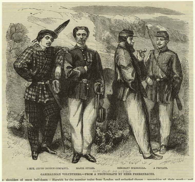 Image Title Garibaldian volunteers. Creator Morgan, engraver -- Engraver Additional Name(s) Fehrenbachs, Herr, fl. ca. 1860 -- Photographer Published Date 1860 Specific Material Type Prints Item Physical Description 1 print : b&w ; 16 x 17 cm. (6 x 6 1/2 in.) Notes Printed on border: "Lieut. Ceuto (Scotch company) ; Major Styles ; Sergeant Sparkhall ; A private." "From a photograph by Herr Fehrenbachs." Written on border: "Oct. 20, 1860." Original Source From The Illustrated London news. ([London] [ The Illustrated London News & Sketch Ltd.] 1842-) . Source Mid-Manhattan Picture Collection / Army -- Italy -- 1899 & earlier Source Description 2 folders (45 pictures) Location Mid-Manhattan Library / Picture Collection Catalog Call Number PC ARMY-Ita-18 Digital ID 831084 Record ID 697477 Digital Item Published 10-27-2005; updated 3-25-2011